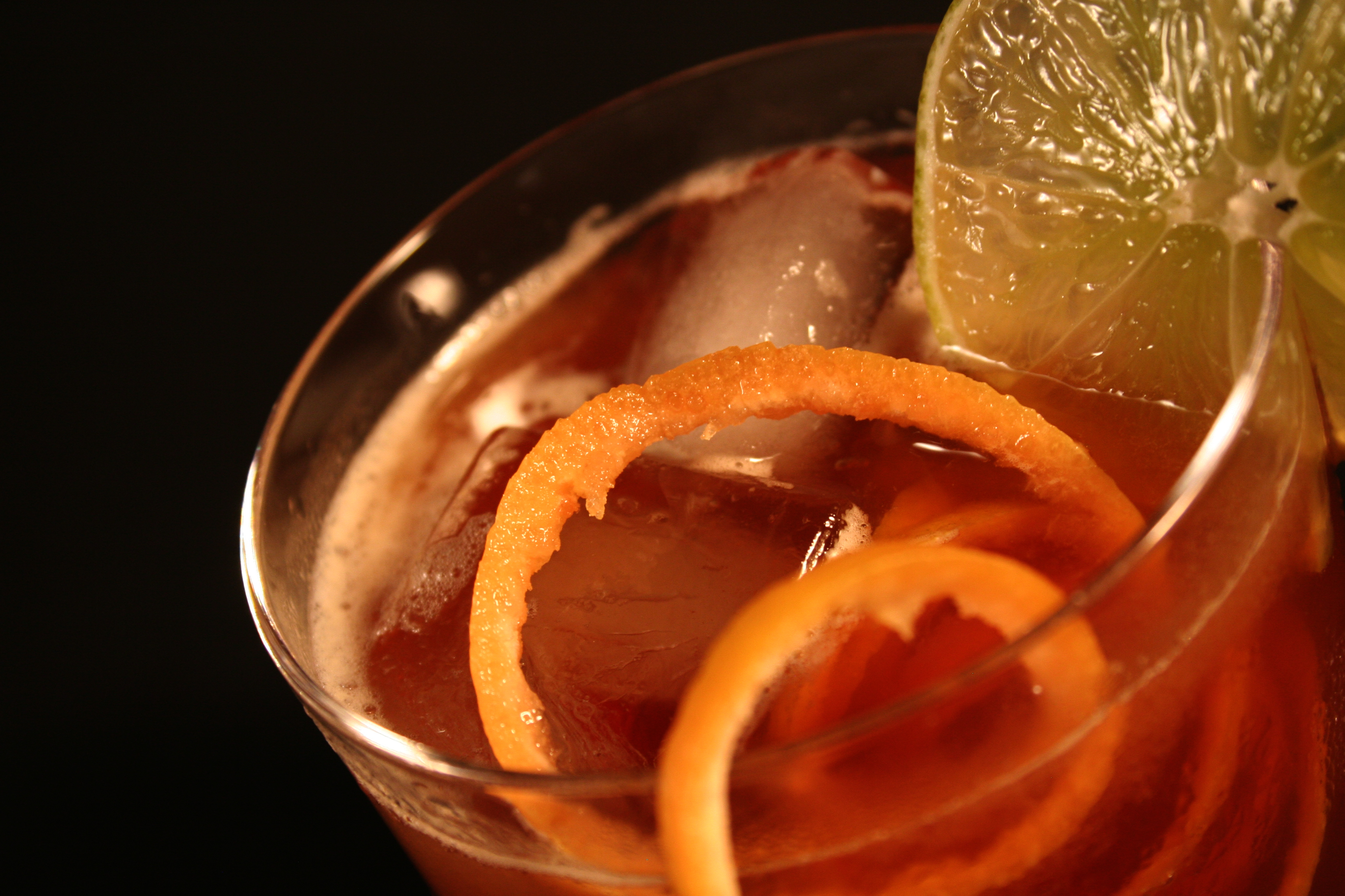 Rum-based cocktail in a rocks glass. Garnished with grapefruit twist and slice of a lime.